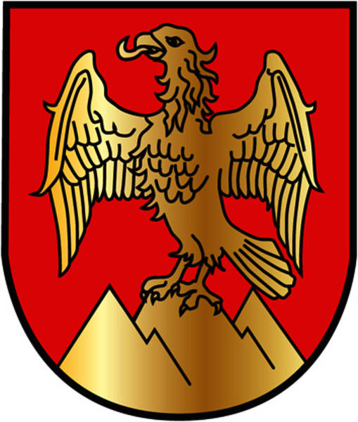 Coat of arms of Arnfels, Styria